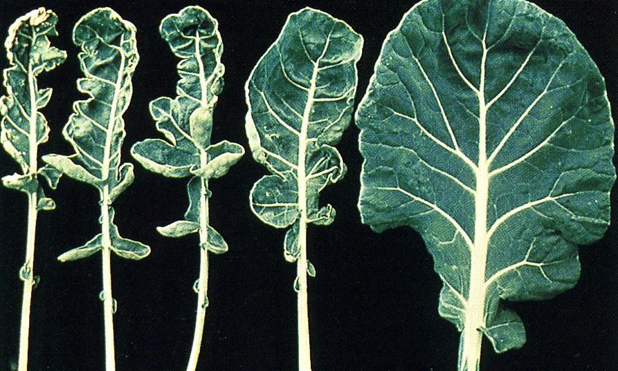 Molybdenum deficiency in cauliflower causes a condition called whiptail in which the leaves have a thin, strappy appearance